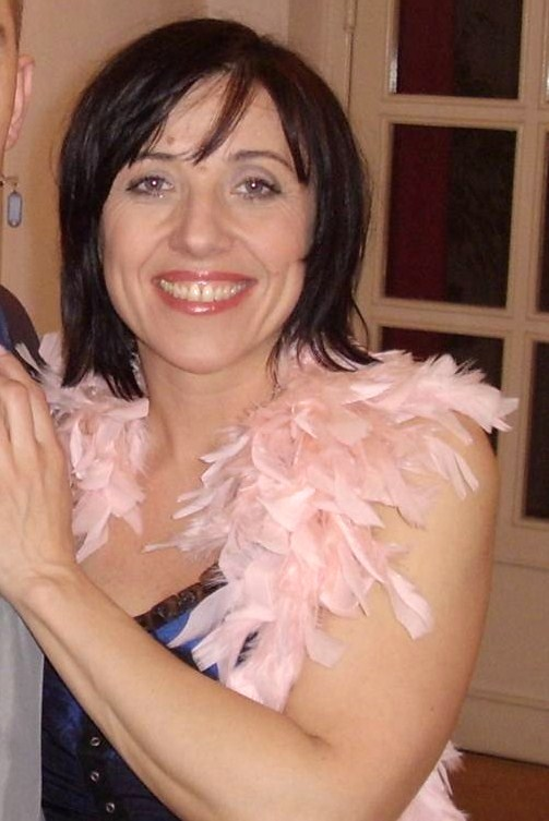 Hanna Śleszyńska - a popular actress from Poland.